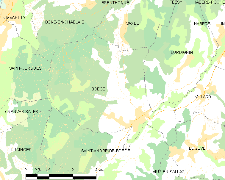 Map of French municipality Boëge